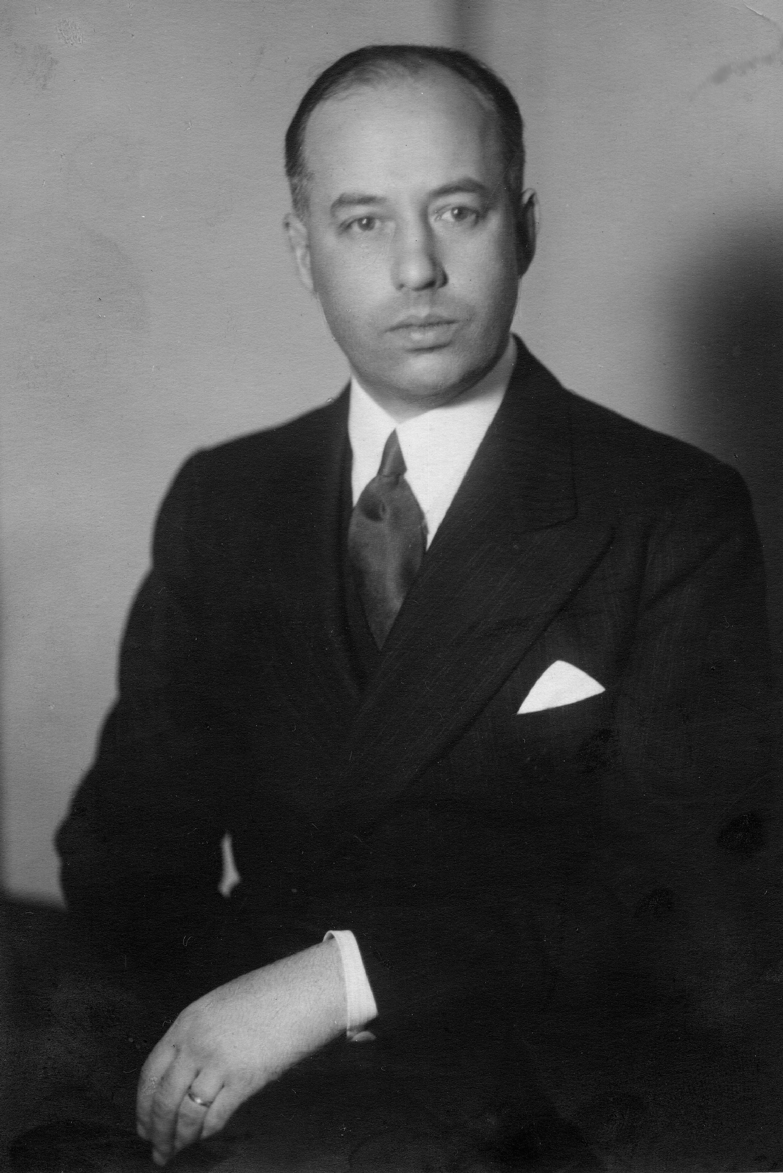 Eugen Filotti - Director of the Press, Romanian Minstry of Foreign Affairs - 1935